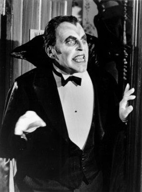 Publicity photo of American actor, Paul Lynde, promoting the December 26, 1972 re-broadcast of the ABC movie of the week, Gidget Gets Married.